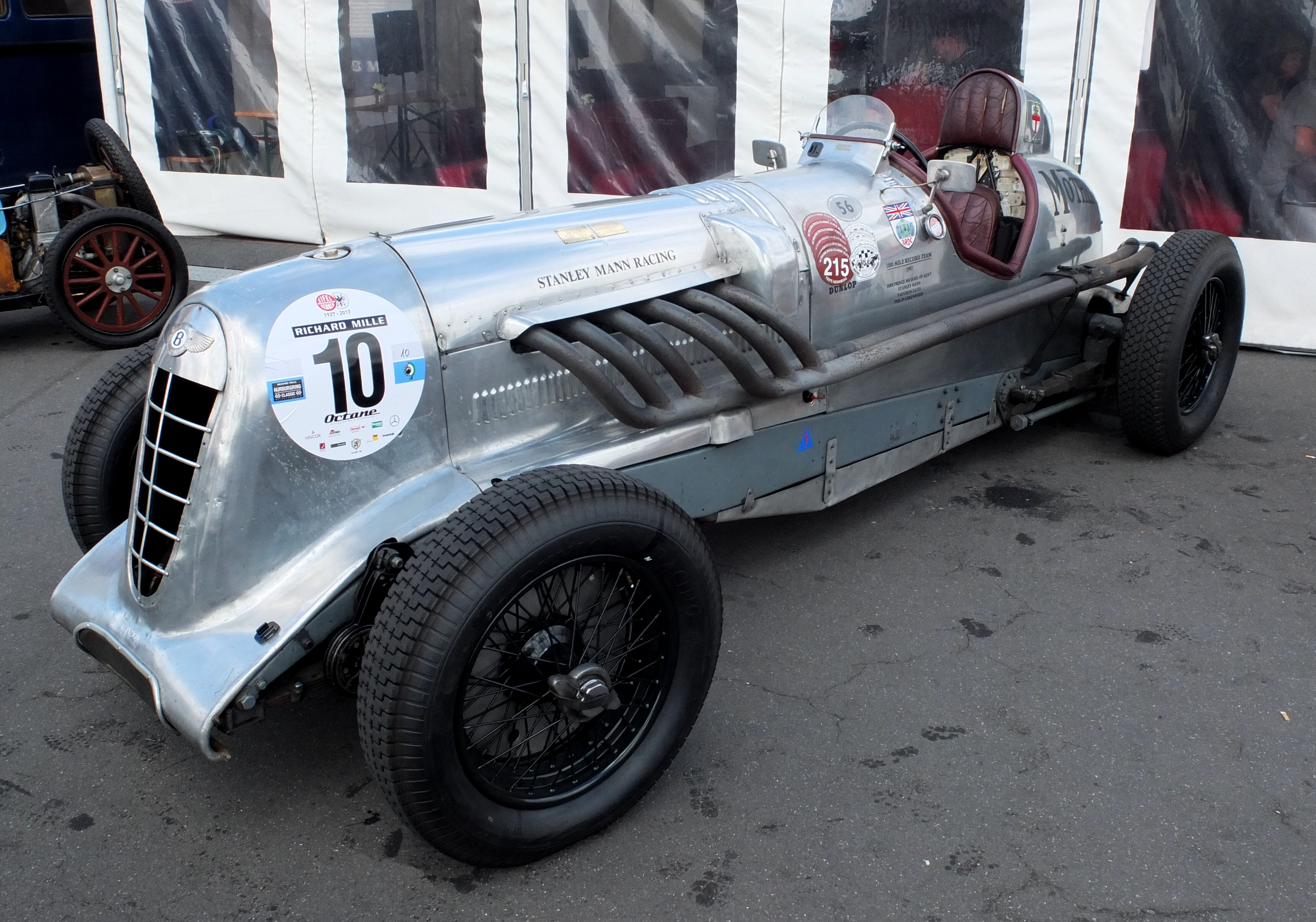 Bentley racing car "Mother Gun", built 1927, 4.5 ltr. engine. Seen at "Nürburgring Classic" 2017 Bentley Marker Jackson Special "Mother Gun"